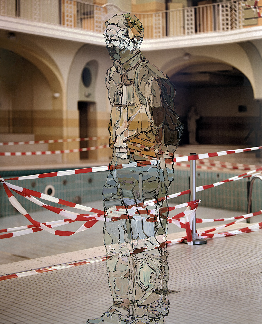 Oil painted on photography.